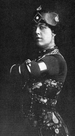 A woman dressed in a dark, complicated costume, with straps around her torso and metallic bands around her arm. On her head is a headpiece with a diamond-shaped center motif.